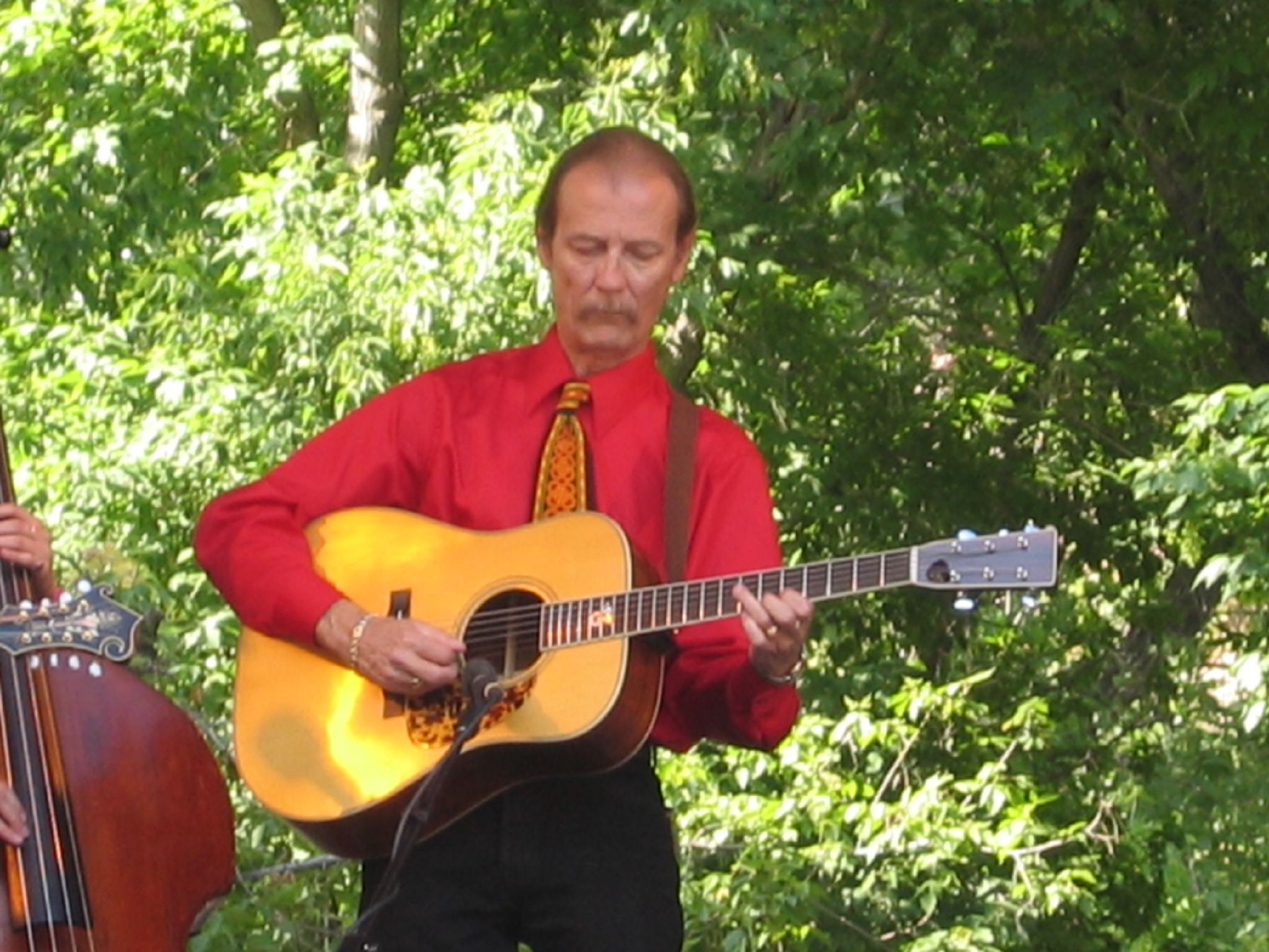 Tony Rice appearing at the 2005 RockyGrass music festival in Lyons, Colorado.